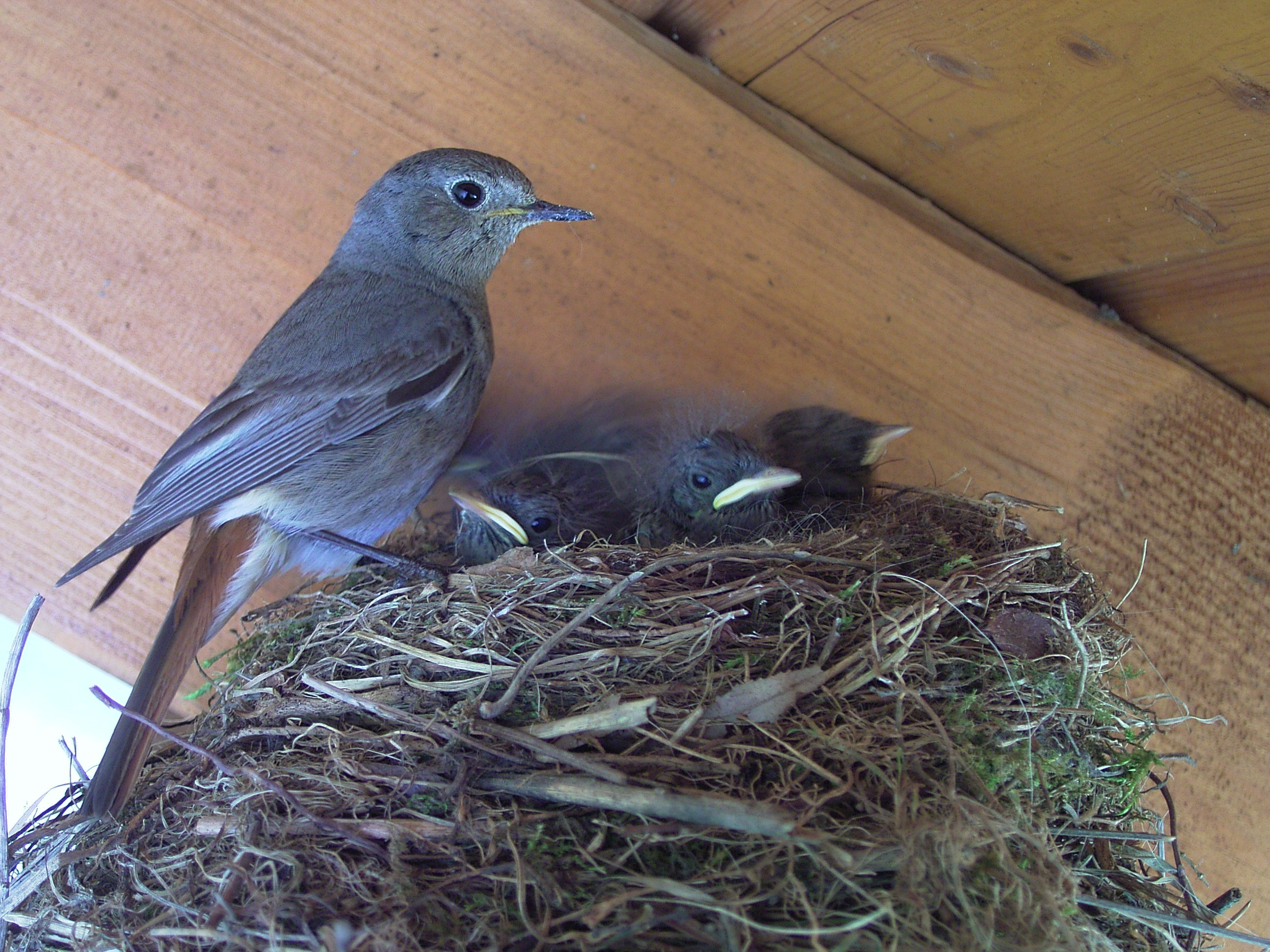 A Parent Bird at the Nest See also overall description below